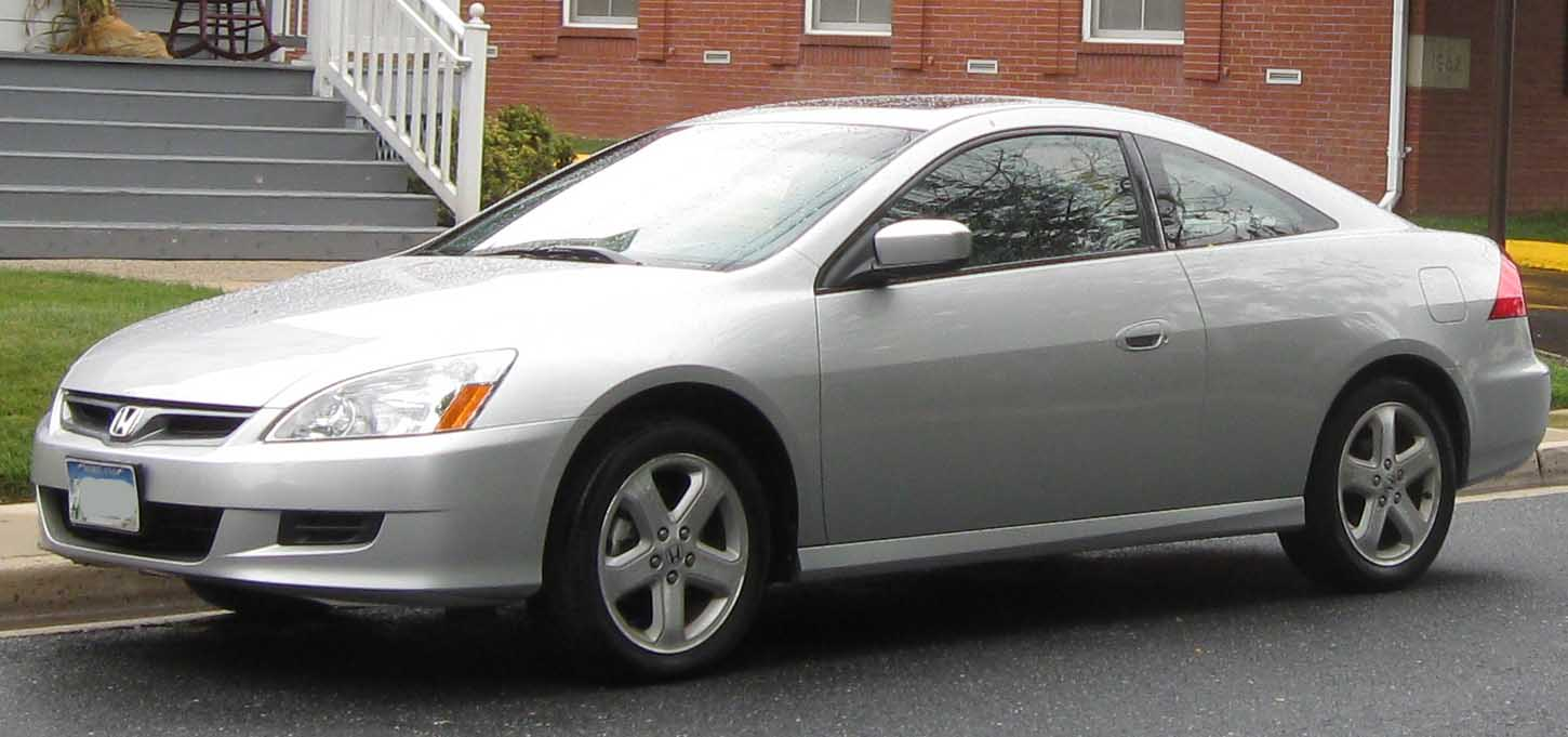 2006-2007 Honda Accord photographed in Gaithersburg, Maryland, USA.